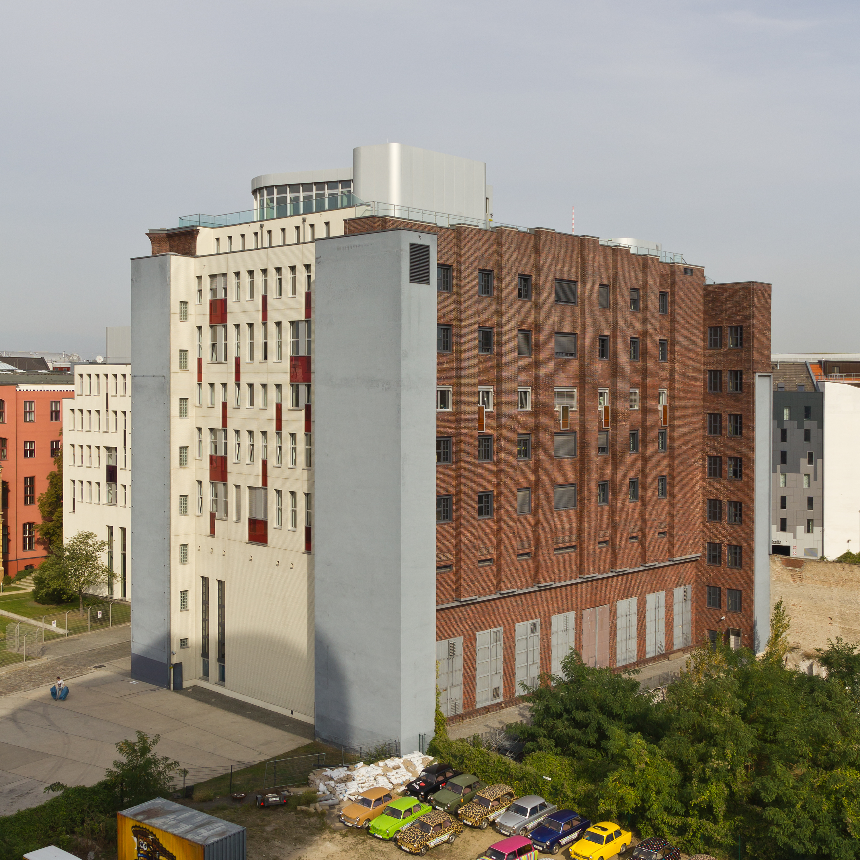 View from the Berlin Hi-Flyer